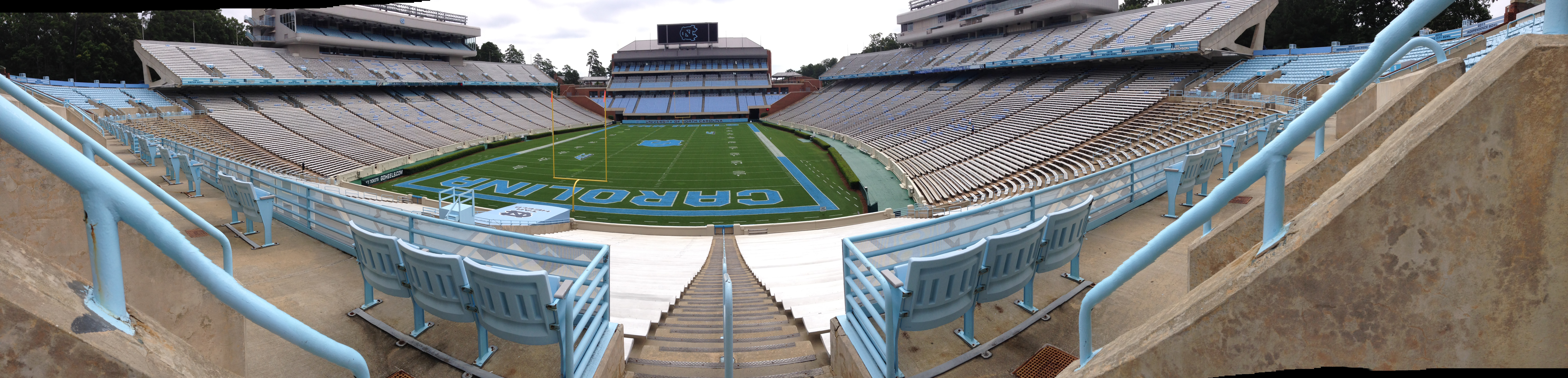 A panorama of an empty Kenan Memorial Stadium taken on the Friday before North Carolina's 2014 season opening game against Liberty.